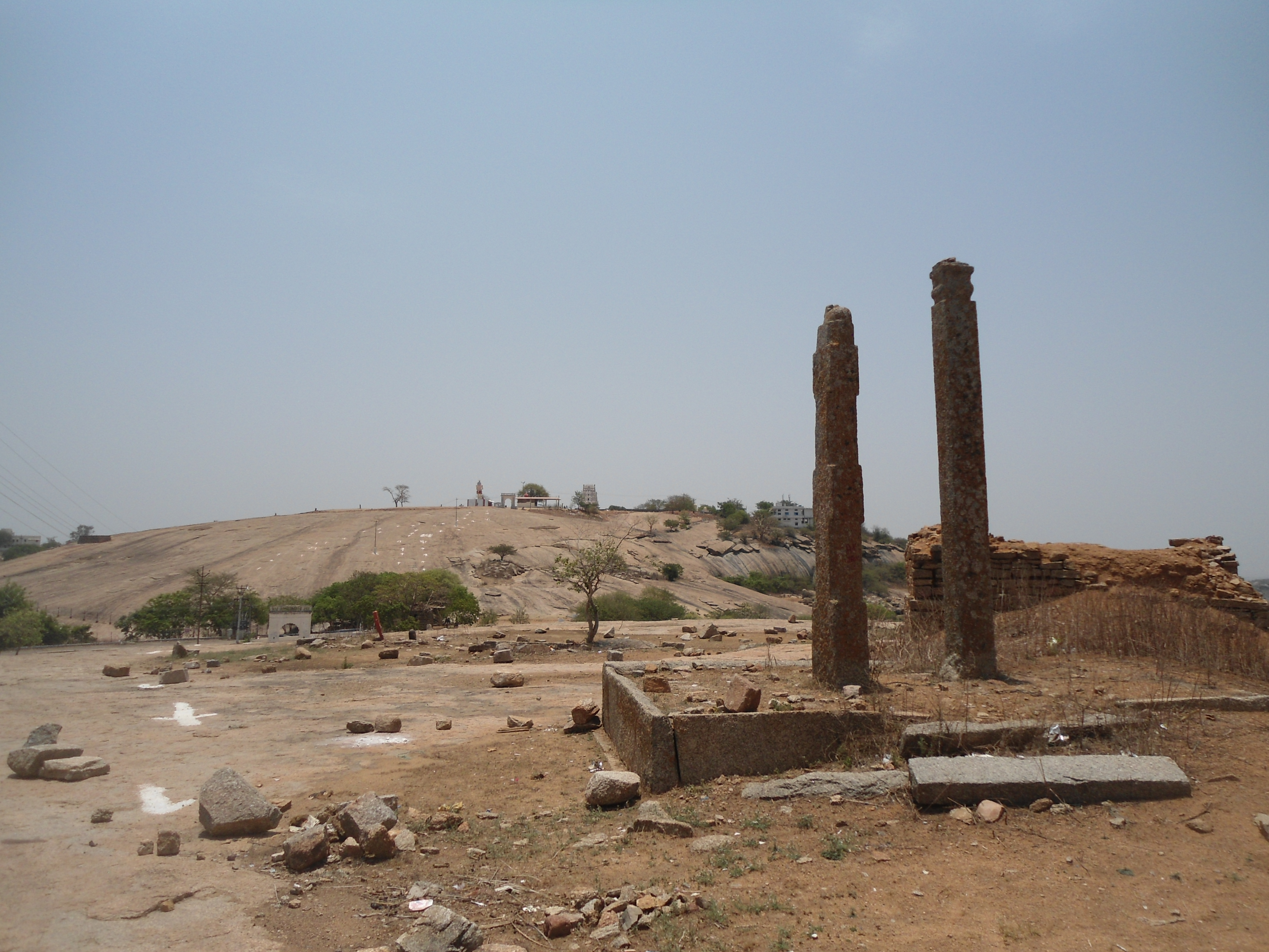 Temple at Keesaragutta in Keesara, Rangareddy district, Andhra Pradesh, India.